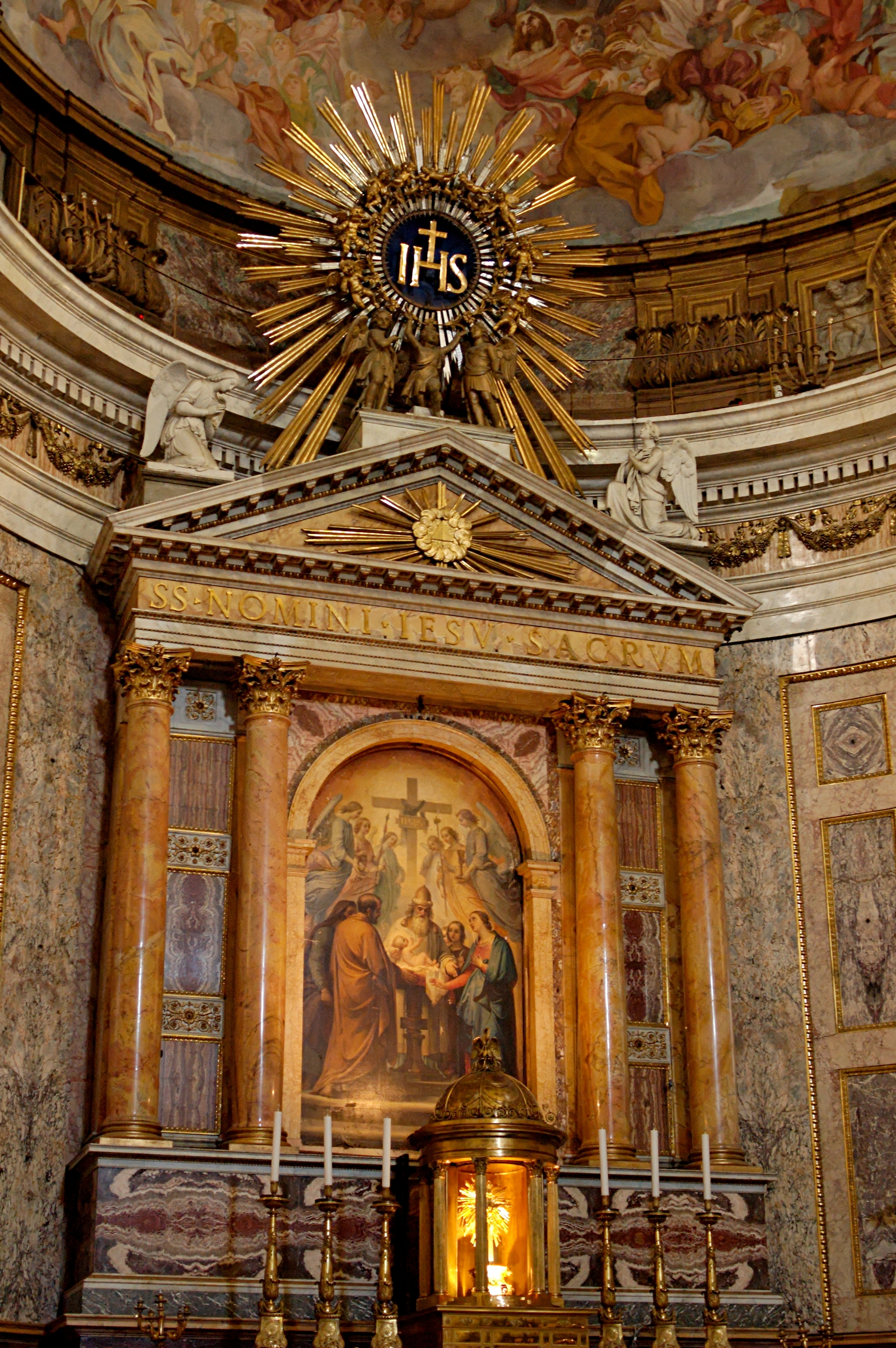 Main altar of the Gesù, Rome, Italy.